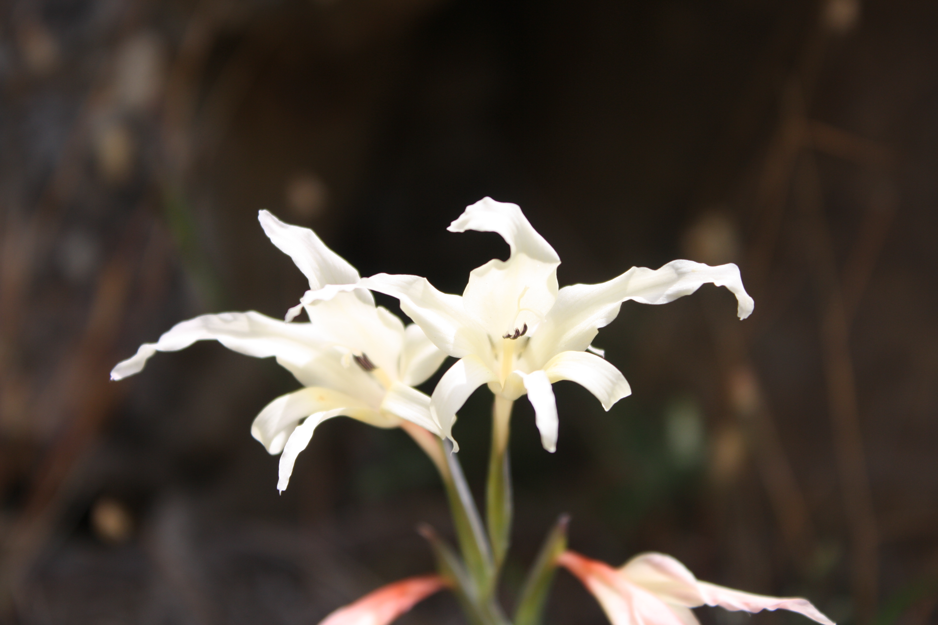 damp soils